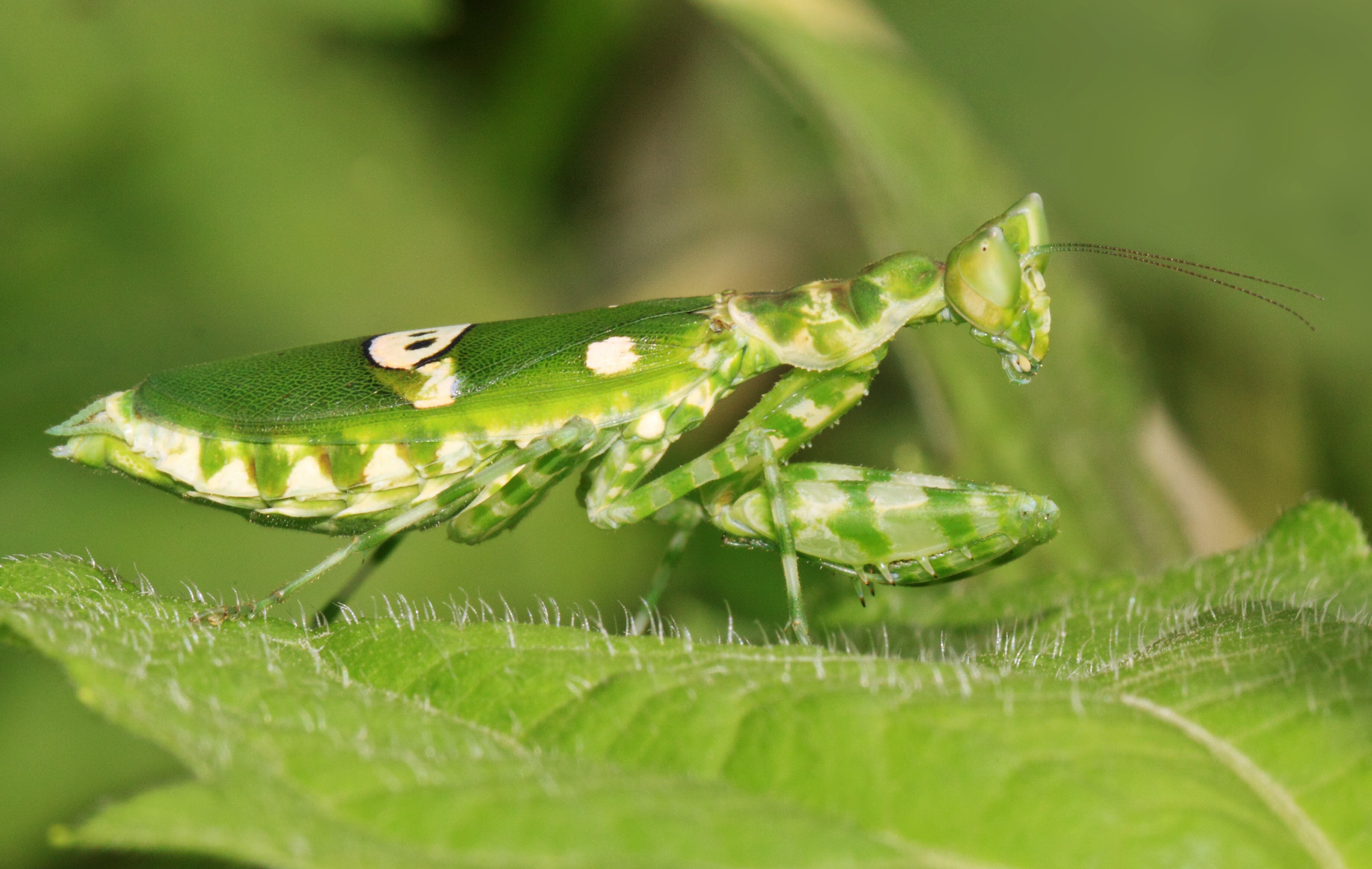 Flower mantis show an aggressive form of mimicry (Peckhamsche mimicry), as flower-visiting insects take them for flowers [1]. L.: ~4-5cm (female) Genus: Creobroter SERVILLE, 1839 [2], (Flower mantis, Blütenmantis) Tribus: Hymenopodini Subfamily: Hymenopodinae Family: Hymenopodidae Order: Mantodea (Fangschrecken) Indonesia, W-Java, Tangerang: vic. Serpong (Kampung), 50m asl., 26.10.2010 [1] [2] _________________________________________________________________________ 100m 2.8 macro (canon), 1/100s, f/16, ISO400, 0EV, ring-flash, mono-pod (IMG_6206)